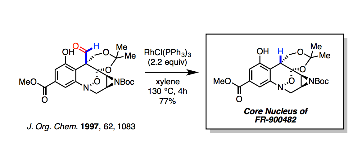 Synthetic Example of Tsuji-Wilkinson 1